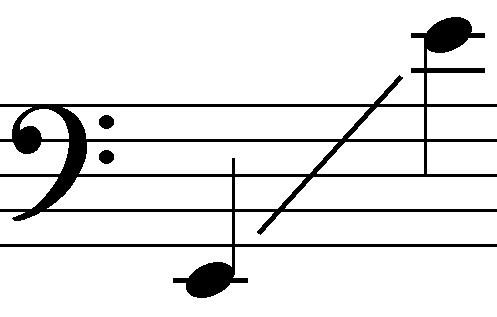 Range of a bass voice